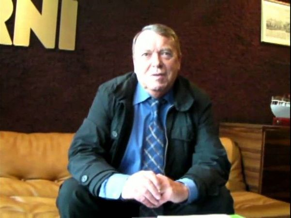 Edwin Bollier, Swiss radio engineer at his office in Zurich